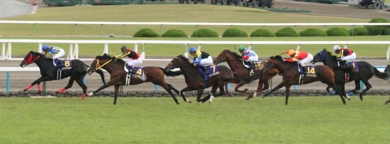 Kikuka Sho(In Kyoto Racecource)